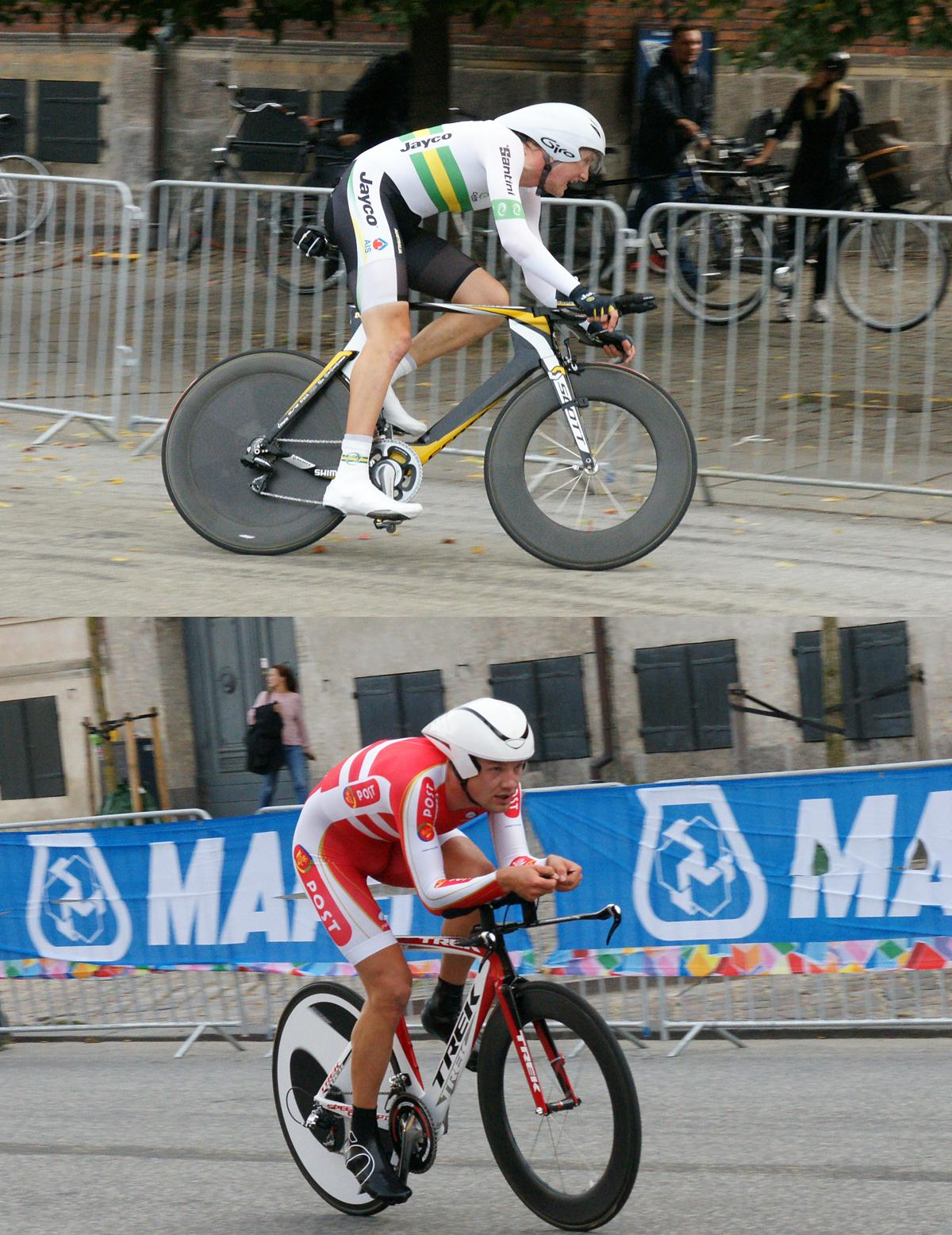 Luke Durbridge Australian road and track cyclist during 2011 UCI Road World Championships in Copenhagen, Time trial Under 23 Men, where Luke Durbridge finish first, winning the world championship 2011